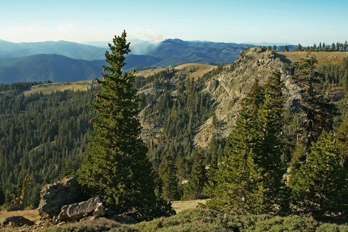 From the top of North Yolla Bolly Peak, a fire is witnessed deep in the Yolla Bolly Wilderness, California. Note the Foxtail Pines Pinus balfouriana on the summit, this is a rare species in the Klamath Mountains. Visit for more information about the conifers of the Klamath Mountains.